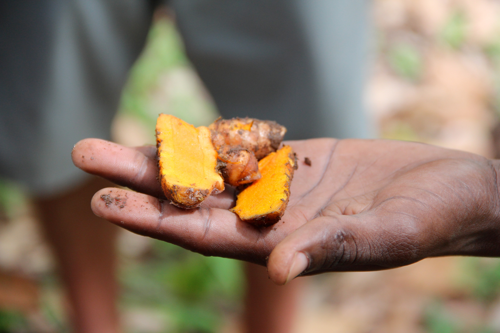 Turmeric root cut in half.